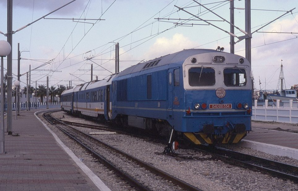 This branch from Sfax to Mahida was at the time the only electrified line in Tunisia, unusual in so far that it was some way from the capital city. The line had a regular EMU service and a few through trains from and to the capital, Tubis. After running round 040-DO-334waits to leave on the return train basck on 6 February 1999. Train 22-5/80, 16:45 Mahdia to Tunis-Ville. Note: The mapping is as close as possible, this due to the lack of detail of the surrounding area on the built in map.